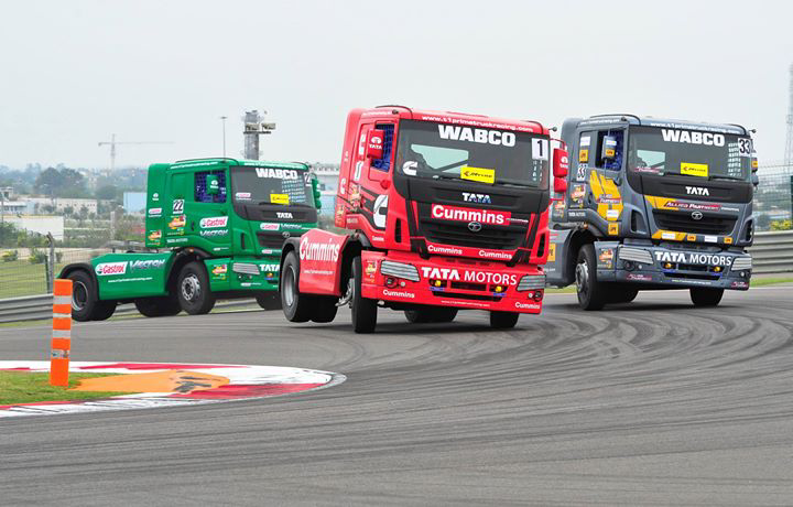 The donuts, the burning tyre, the roar of the gigantic machine creates the ultimate thrill